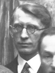 Painter Samuel Finlkenstein (left), with collegue from Jednoróg Art Association, painter Tadeusz Seweryn (right; Holocaust rescuer after Finlkenstein's death) at an art opening in Krakow (cropped from 1933 group photo at the gallery).